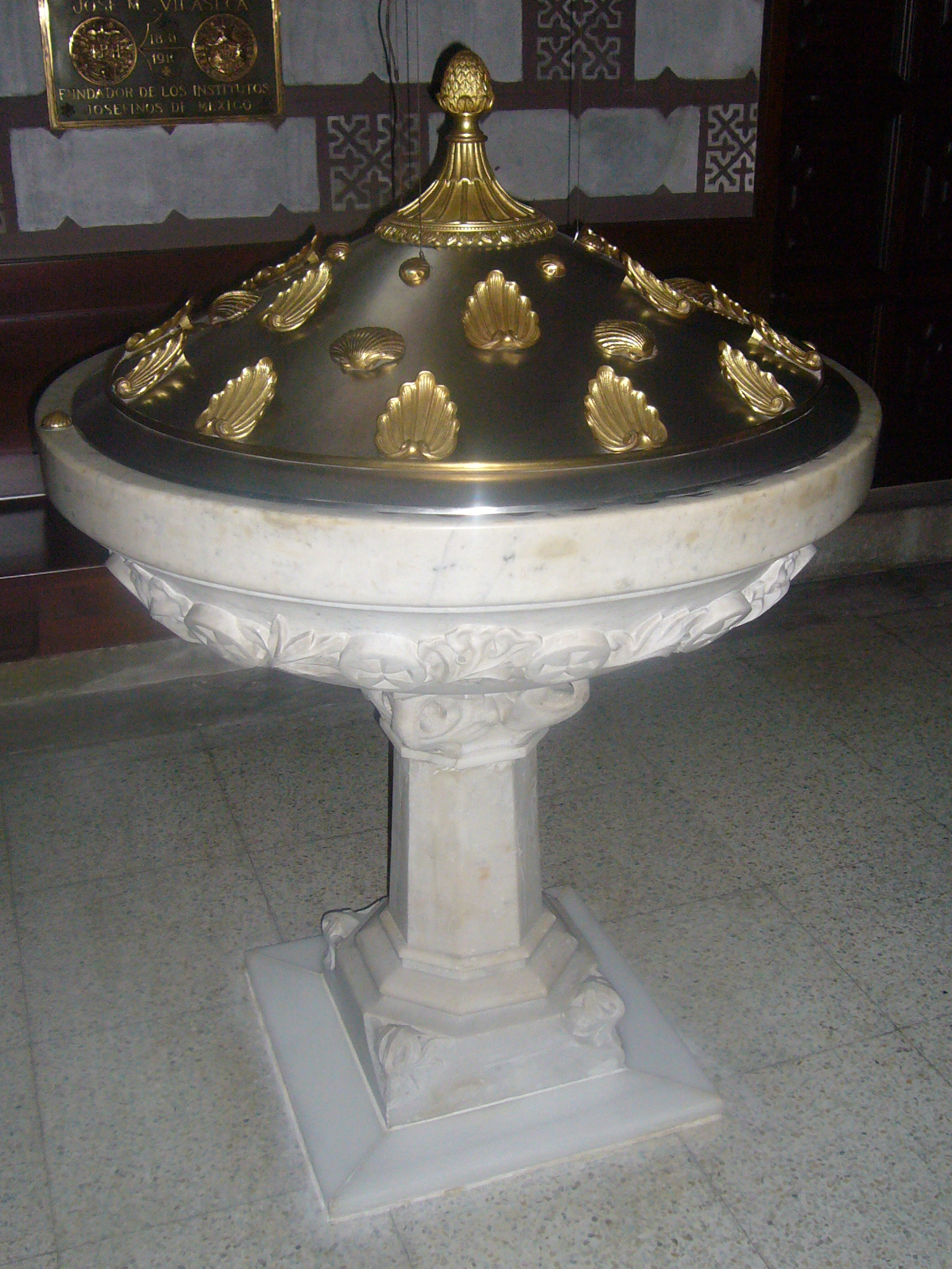 Baptistry, of modernisme style, located at the Basilica of Santa Maria, Igualada. Author: Ignasi Colomer i Oms (1904)